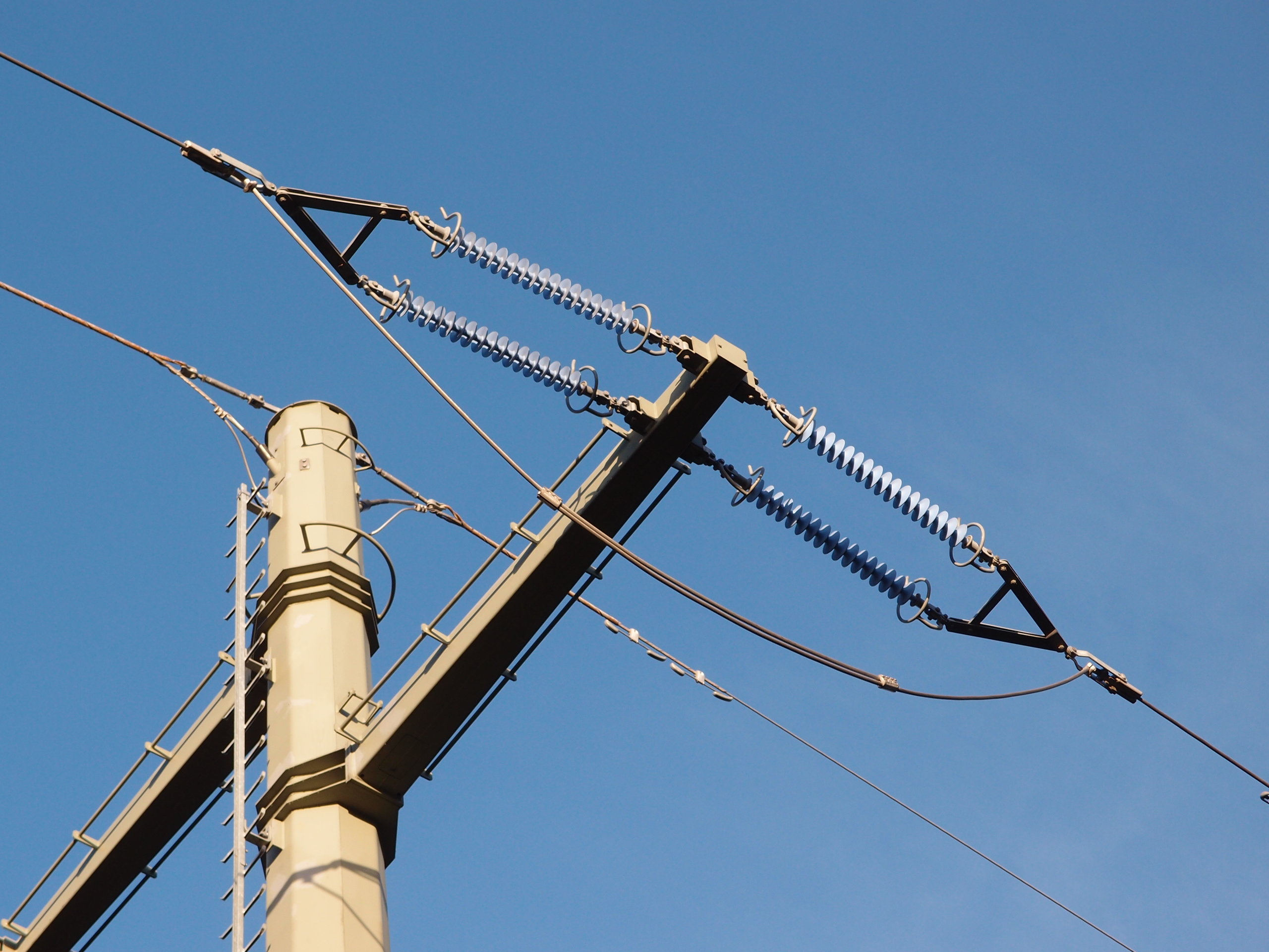 Silicone insulators on a 110 kV power line